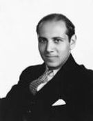 Promo Photo